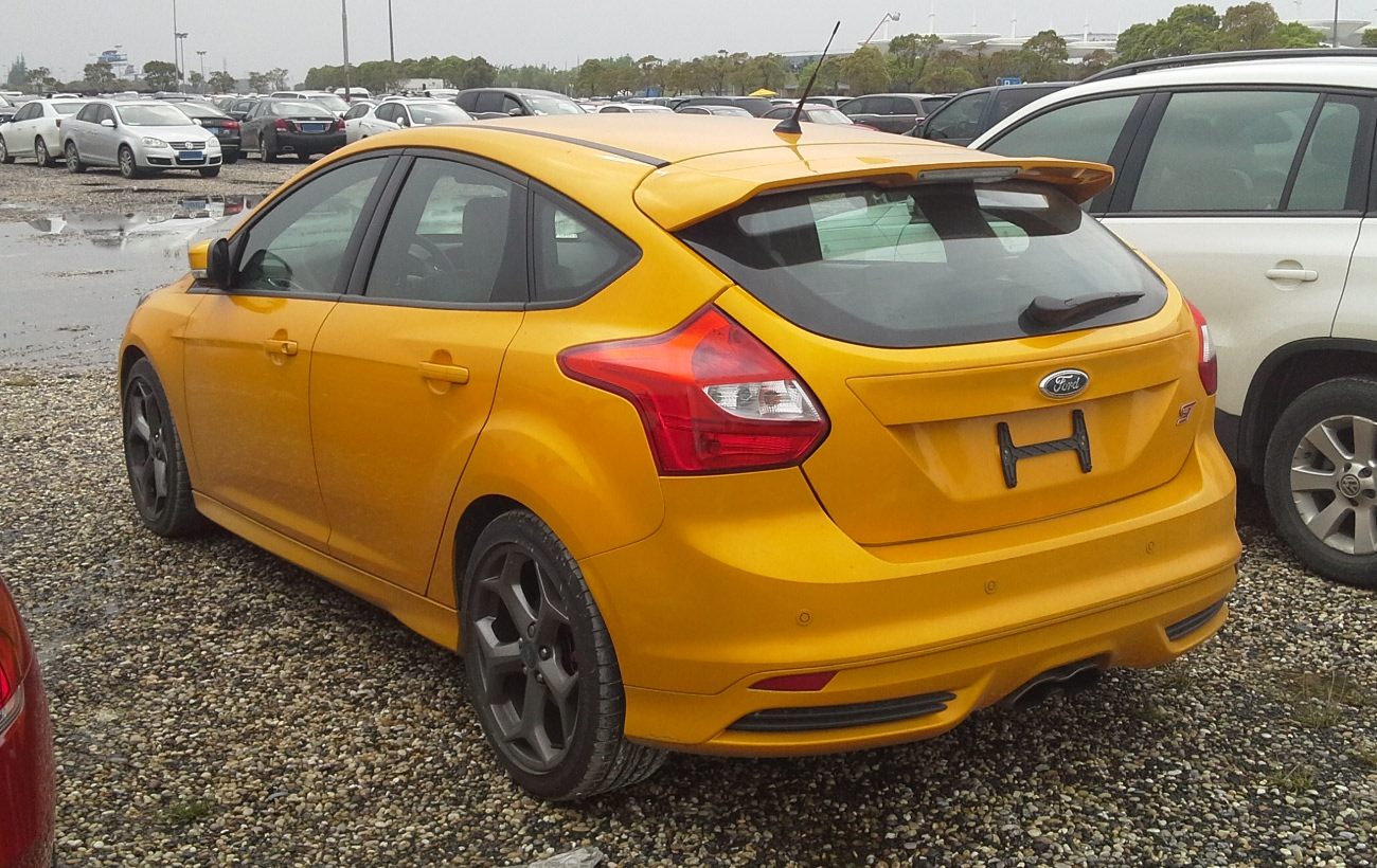 Ford Focus III hatch ST photographed in Anting, Shanghai municipality, China.